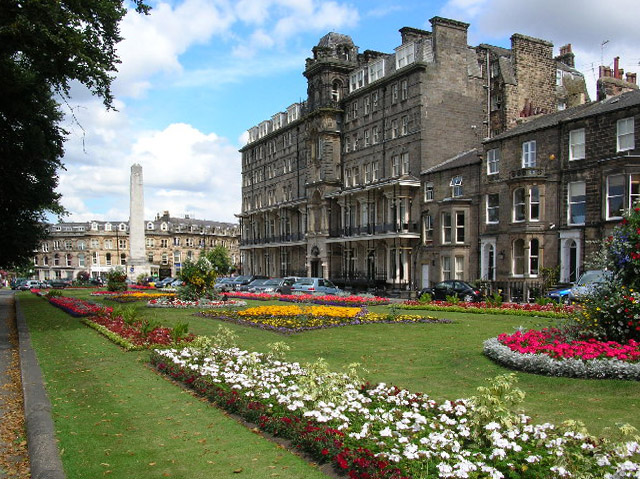 Harrogate Cenotaph The Cenotaph and Yorkshire (formerly Imperial) Hotel